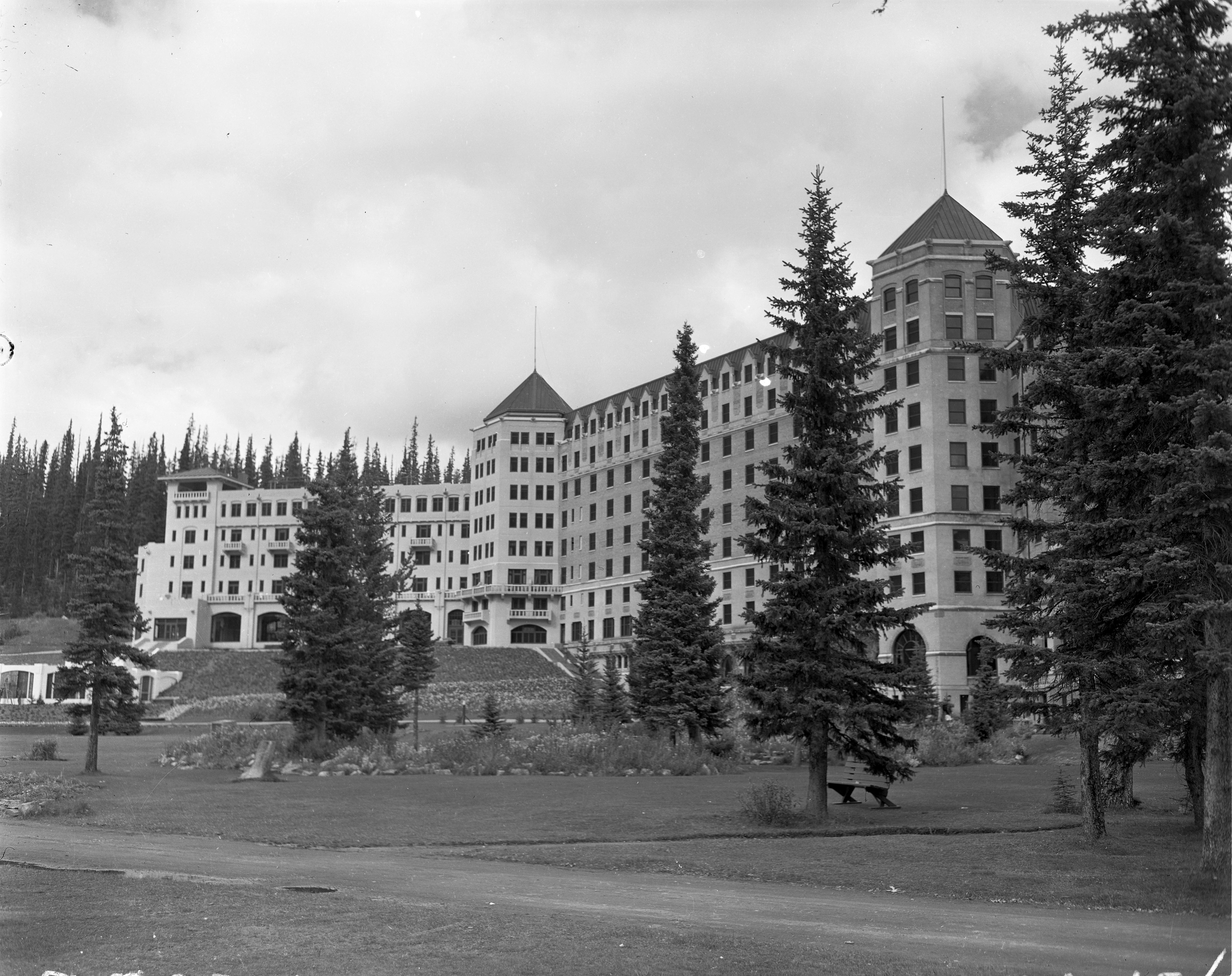 Lake Louise, Banff National Park, Alberta. Public Affairs Bureau, PA15.2.